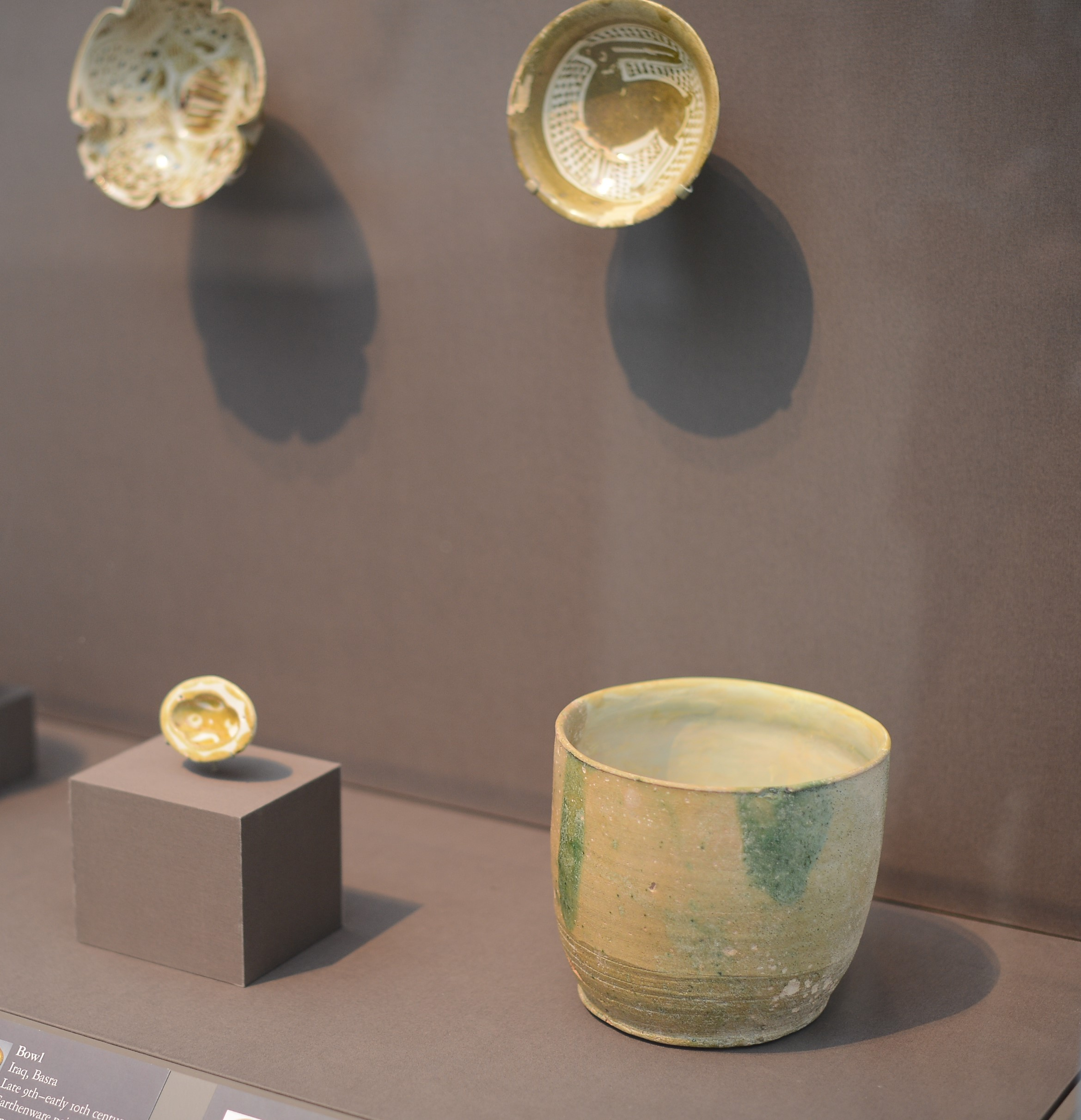 جرة كبيرة من موقع الربذة